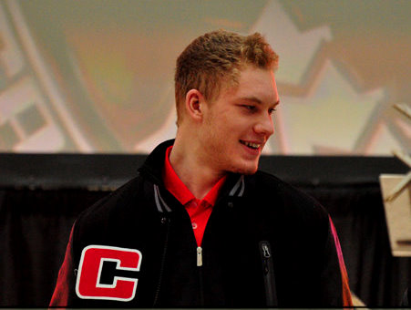 Canadian defenceman Jamie Oleksiak at a press conference for the 2012 World Junior Championships on December 23, 2011, in Edmonton, Alberta.